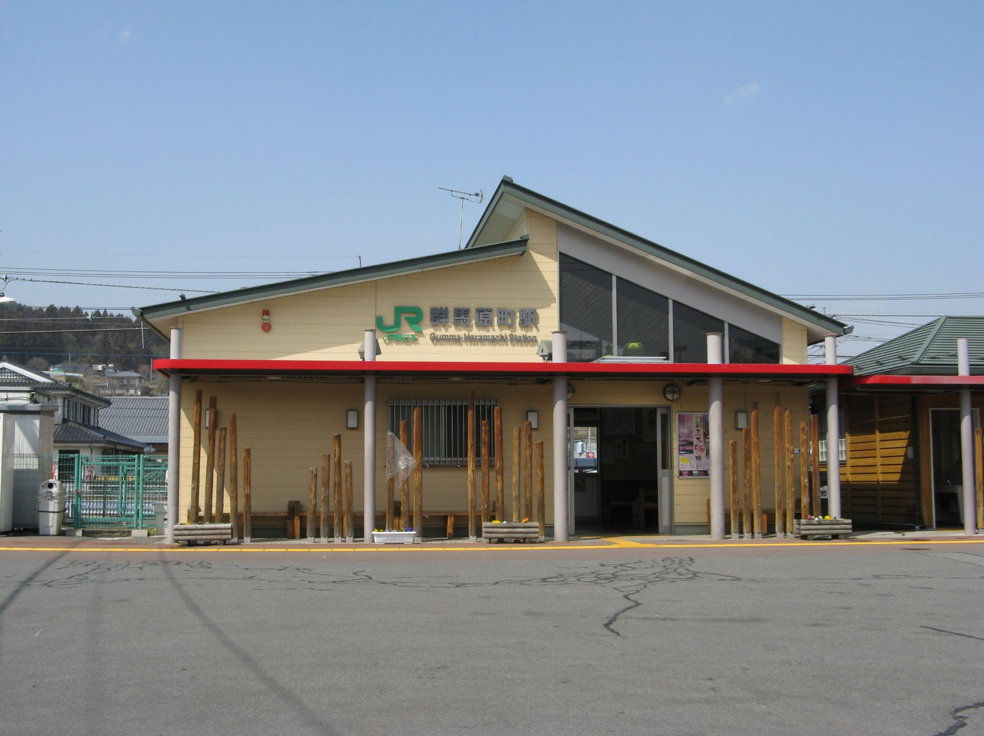 Gunma-Haramachi Station of the Agatsuma Line, Higashiagatsuma, Gunma, Japan in August 2005